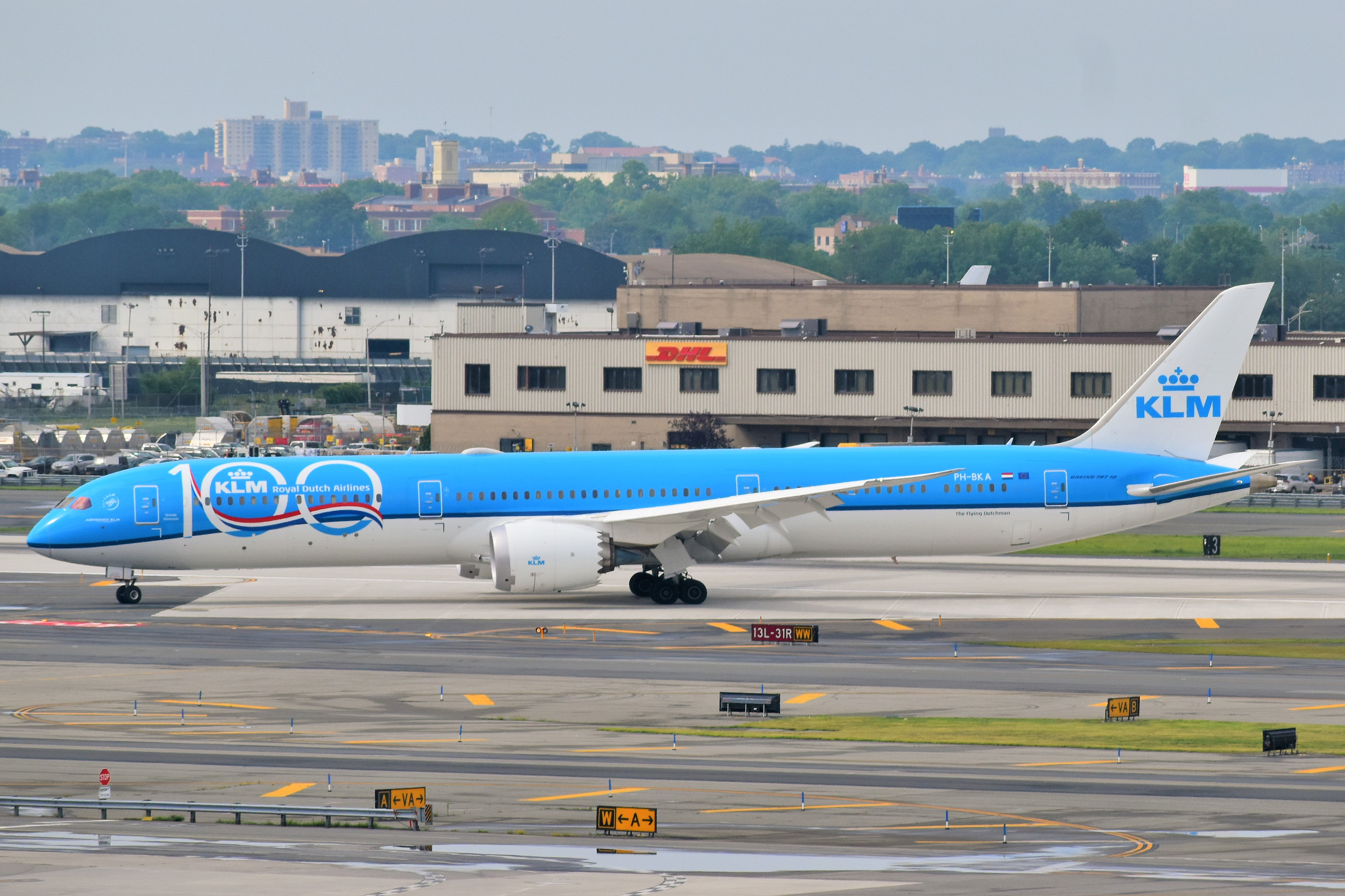 A KLM Boeing 787-10 Dreamliner, operating Flight 645, has just landed on Runway 31R at John F. Kennedy International Airport, and is turning left for taxiing back to its terminal.